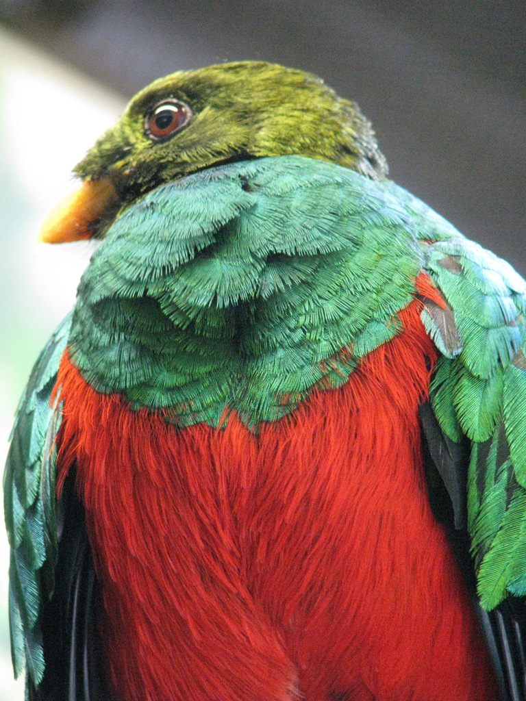 Picture of Golden Headed Quetzal at the Houston Zoo.